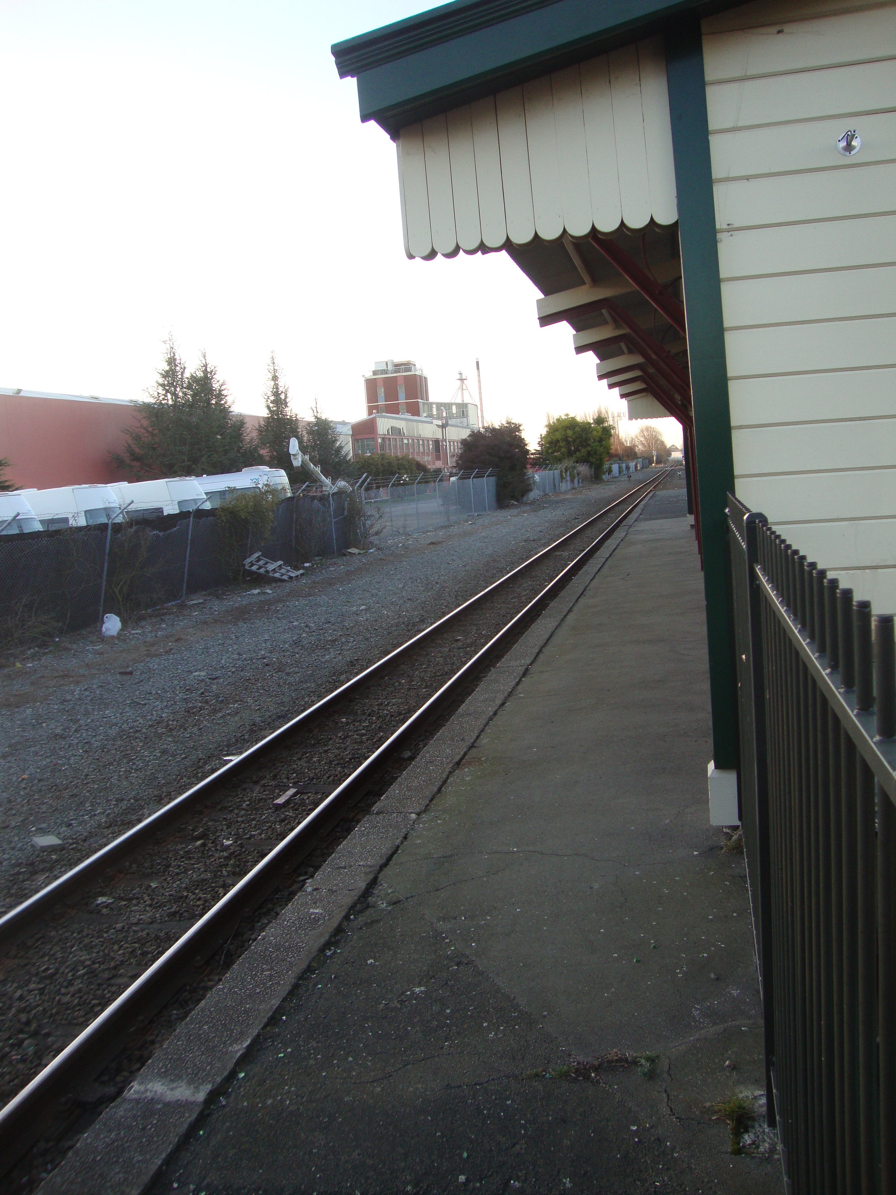 Papanui Railway Station in Restell Street; view of the platform.